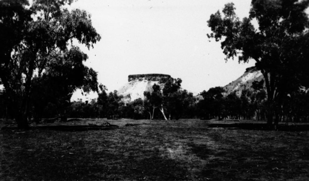 Microfiche incorrectly says diagram of municipal trams trust poles, Great Artesian Basin, SA. 3828, 3830, 3847 - These are scenes in the Northern Territory. (G Brooks)